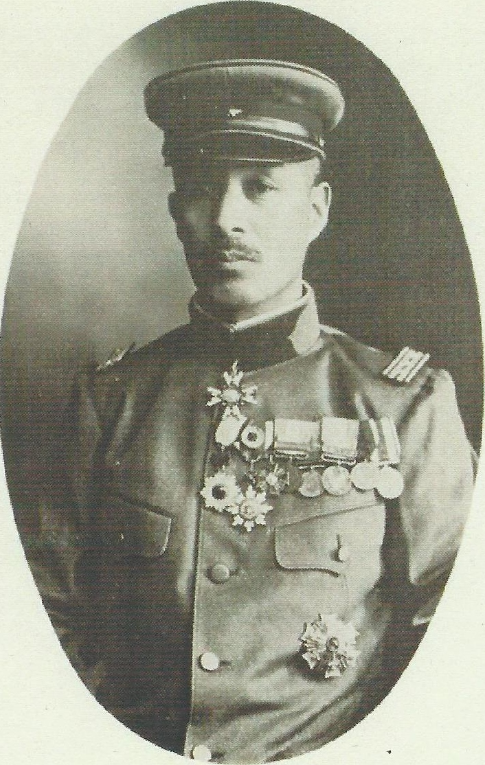 Hatsuo Yamagata (1873 - 1971)